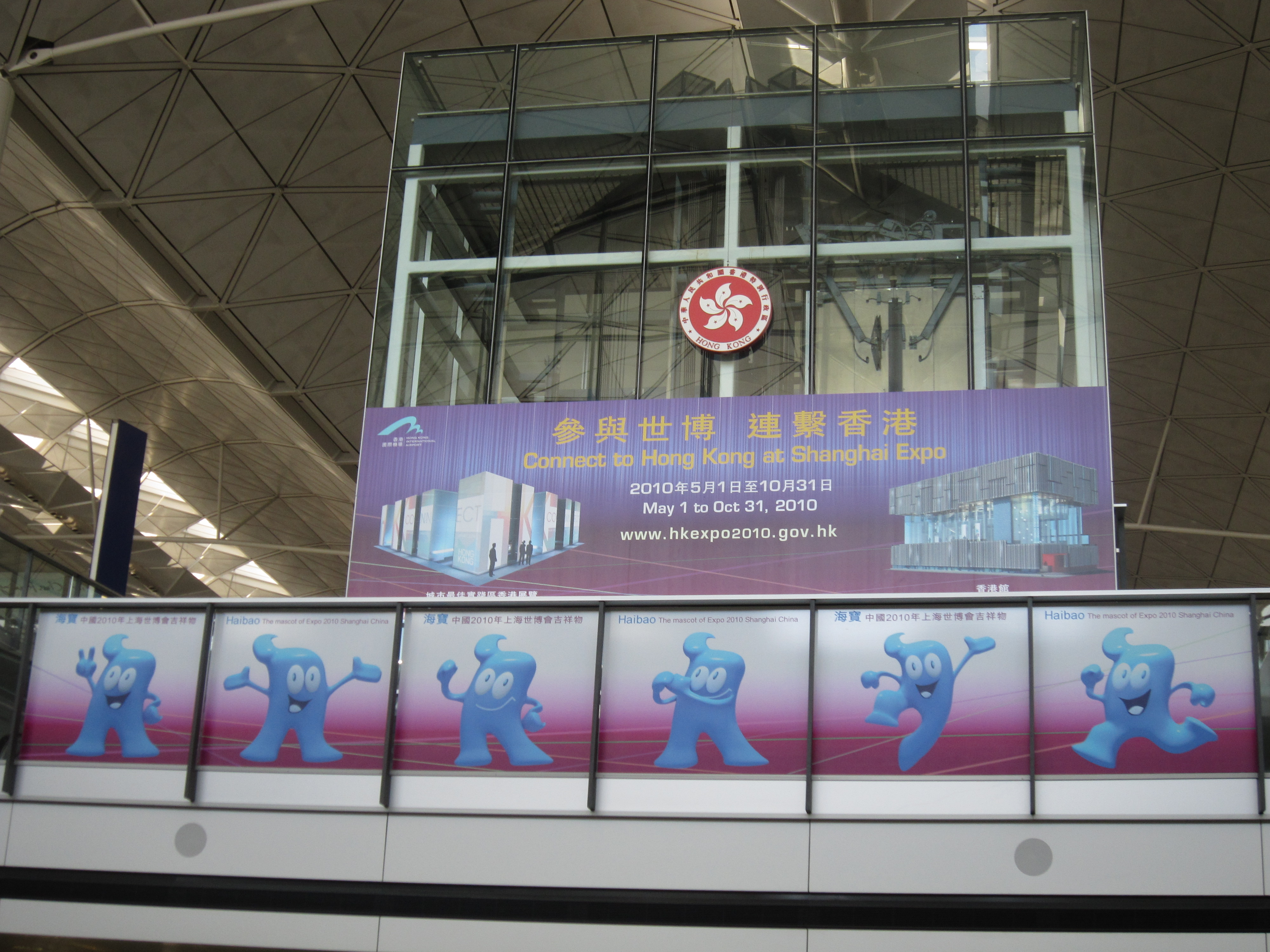 a Coat of arms of Hong Kong in Hong Kong International Airport